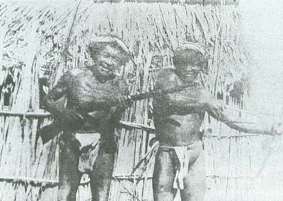 Wayuu people with weapons.